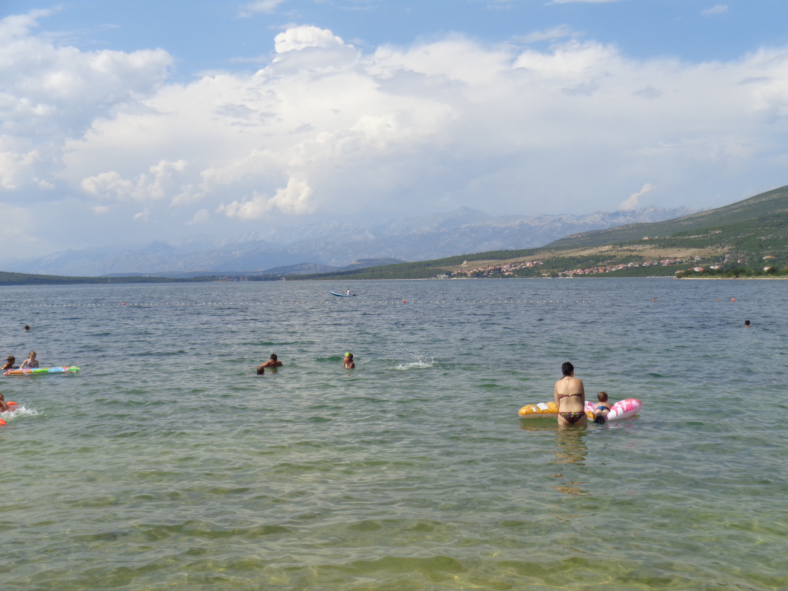 Karin Sea, Zadar County, Croatia